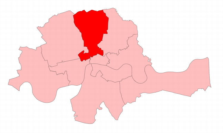 A map of Finsbury constituency within the Metropolitan Board of Works area, as it existed from 1868 to 1885.